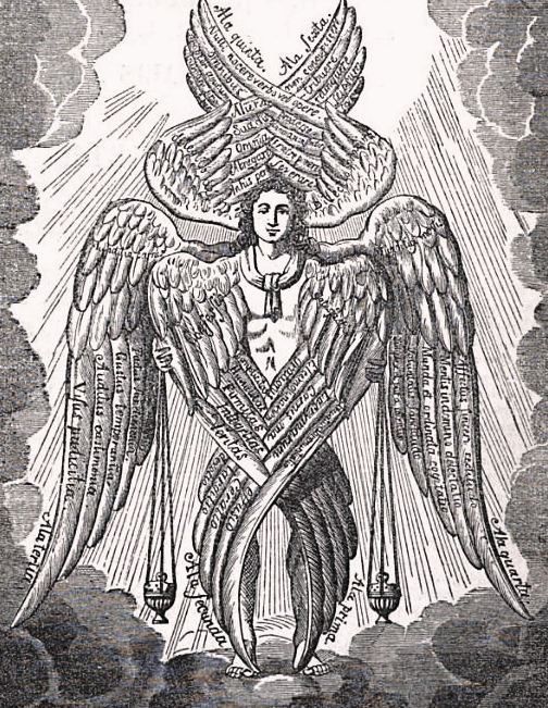 A cherub depiction, taken from Migne's Patrologia Latina, vol 210, col. 267, 268.